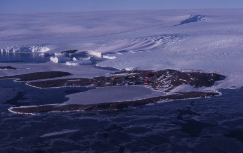 Mawson station from the air, showing Horseshoe Harbour. This is at the end of summer, and sea ice is beginning to re-form.